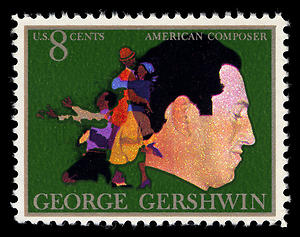 This file contains an image of a 1973 USPS stamps issued to honor George Gershwin